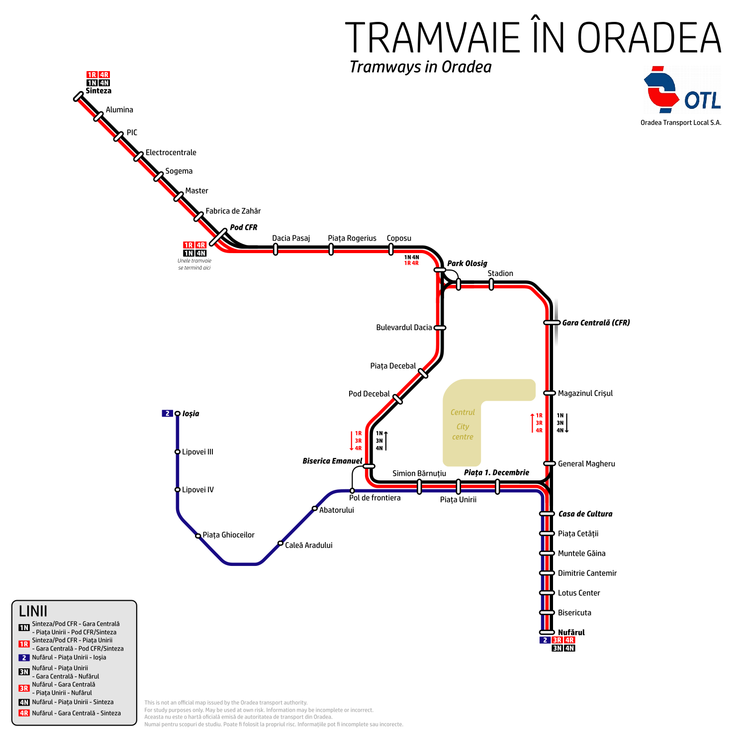 A map of the tram network of Oradea, Romania. Self-drawn.